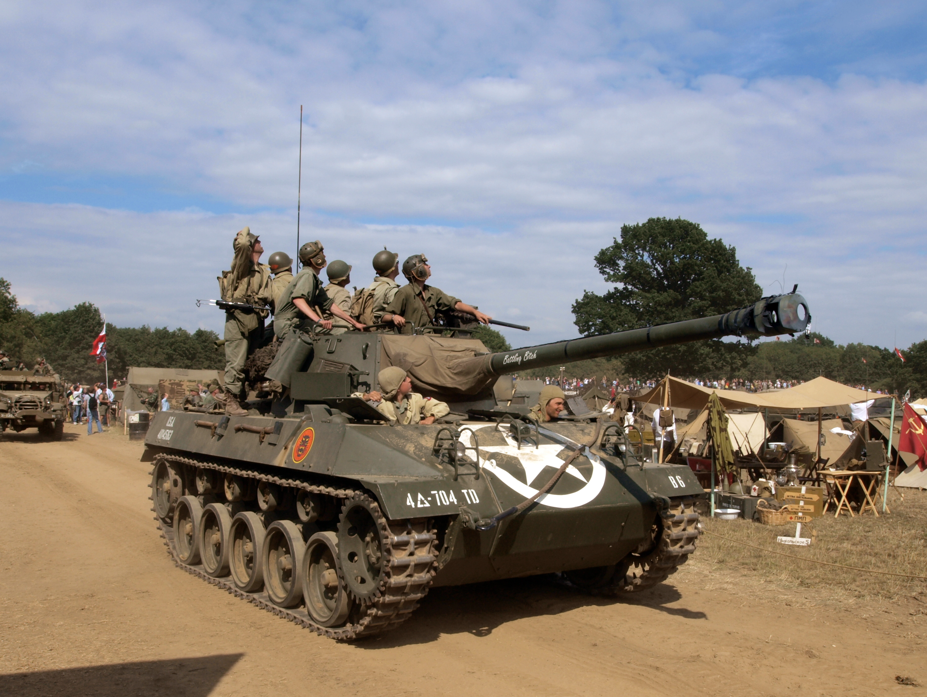 Hellcat 'Battling Bitch', USA 40145163